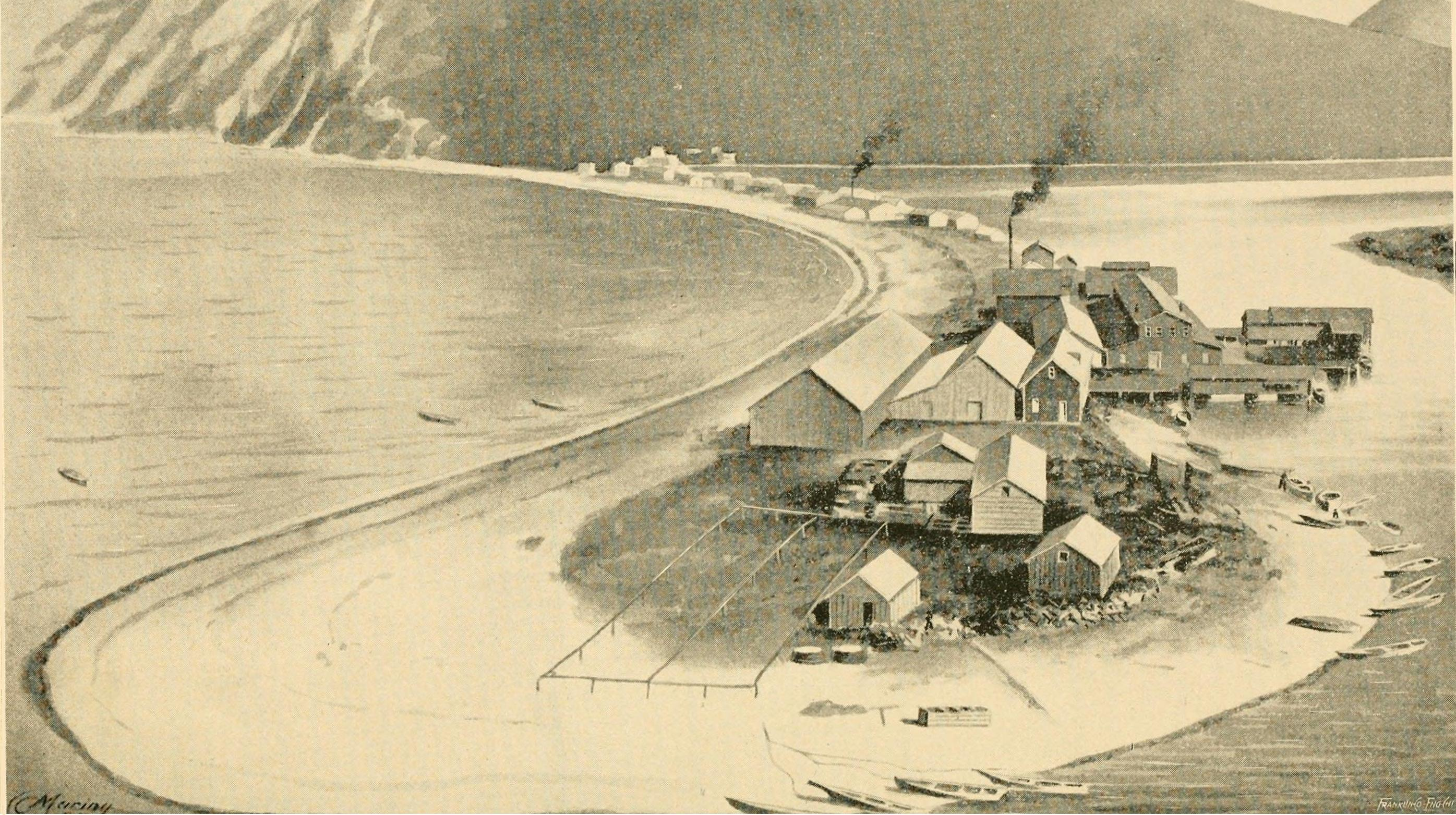 Karluk Spit, Karluk, Alaska, fishing village on Kodiak island. Probably 1890s, published 1895 with the caption "Karluk Sand Spit and 'River of Life'".